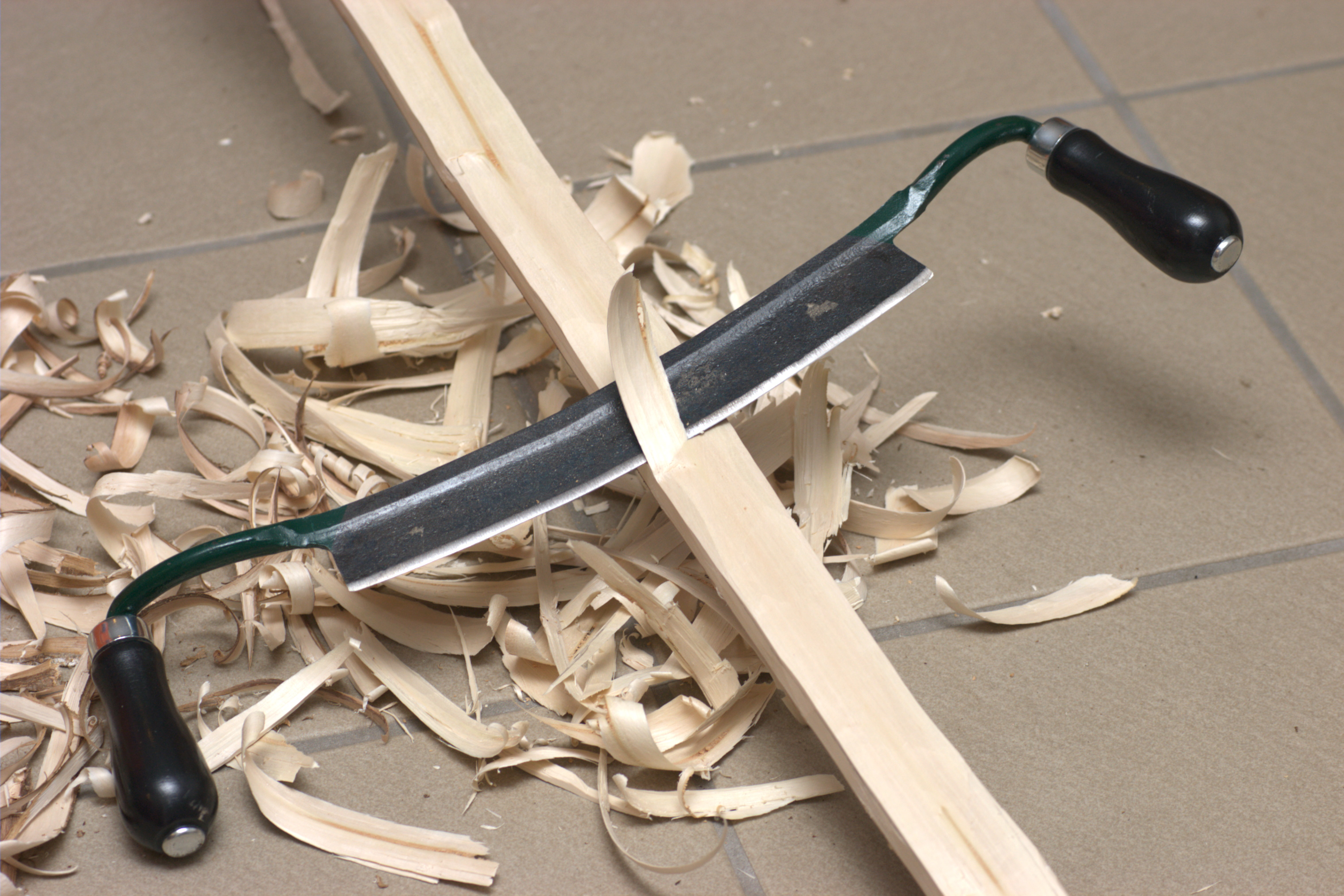 Drawknive, working on a hazelnut flatbow